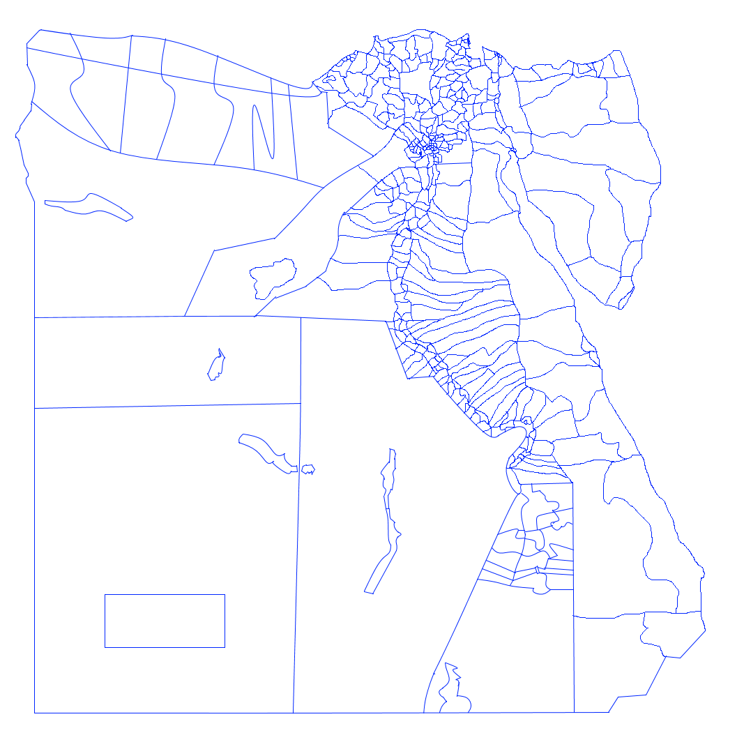 The districts of egypt